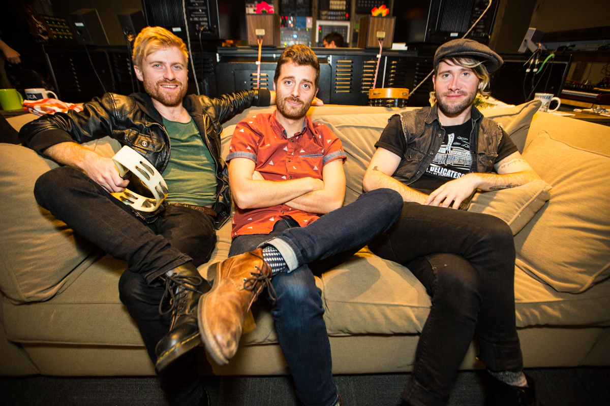 portrait of jukebox the ghost